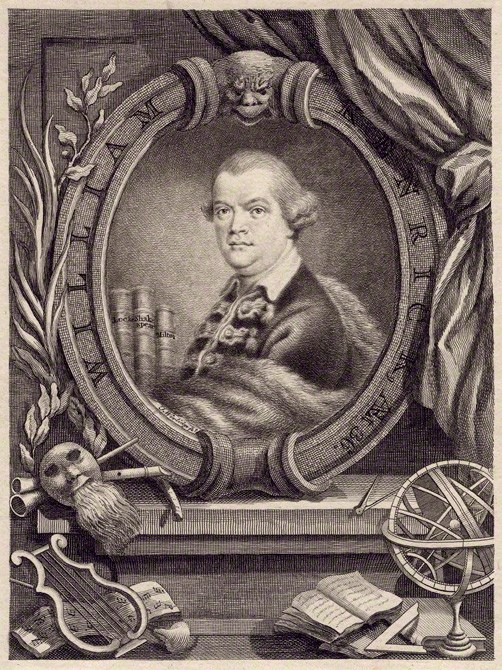 Engraving of William Kenrick